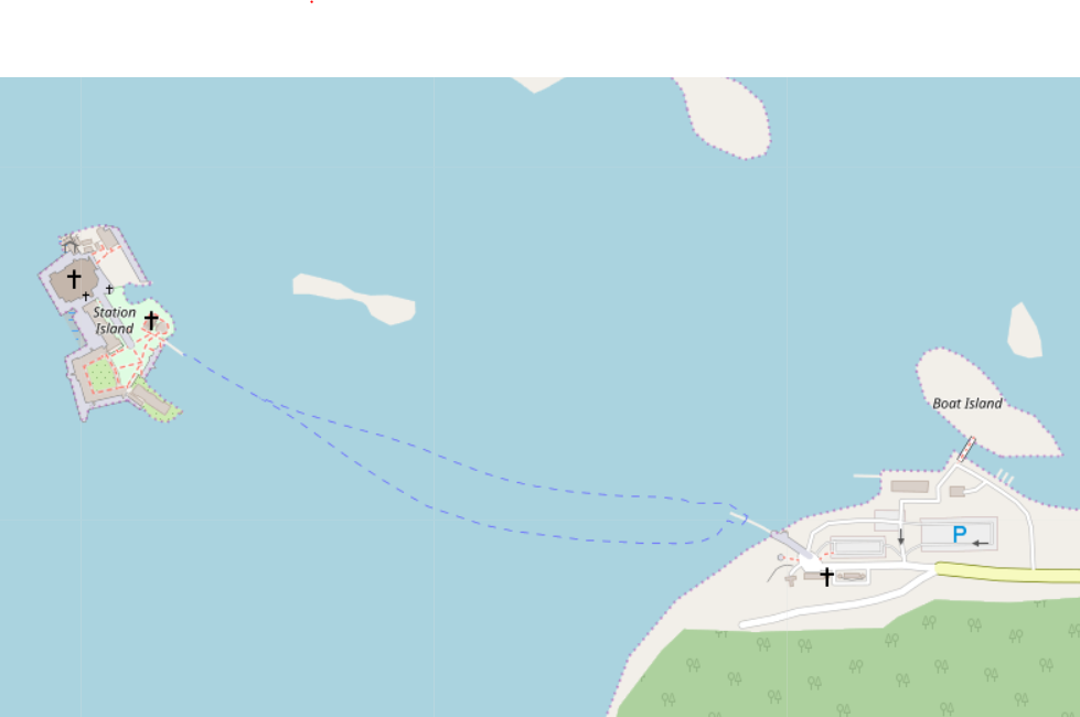 An image reprensenting Station Island in Lough Derg, Donegal, Ireland. © OpenStreetMap contributors